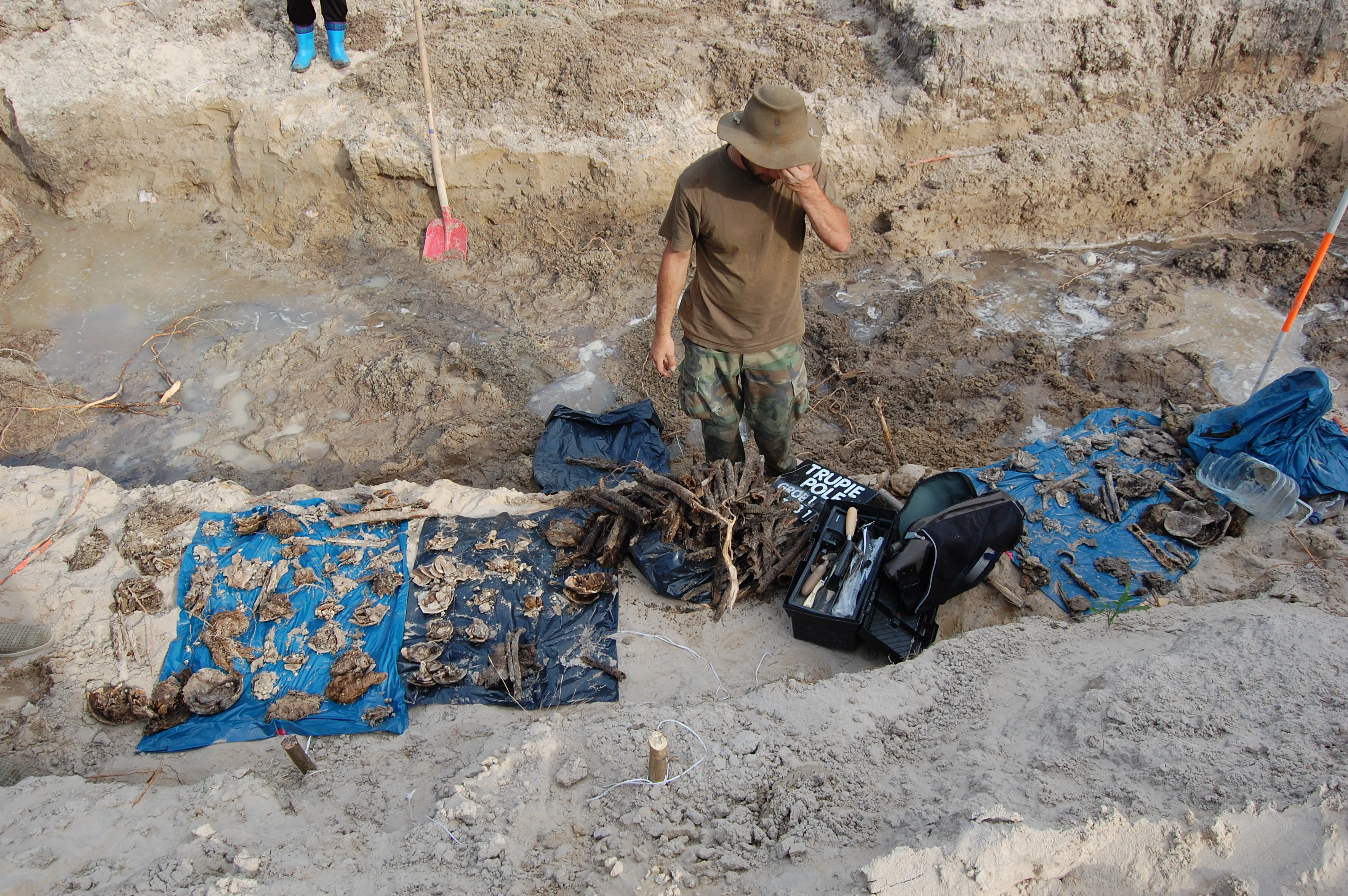 The Field of the Dead during exhumation.